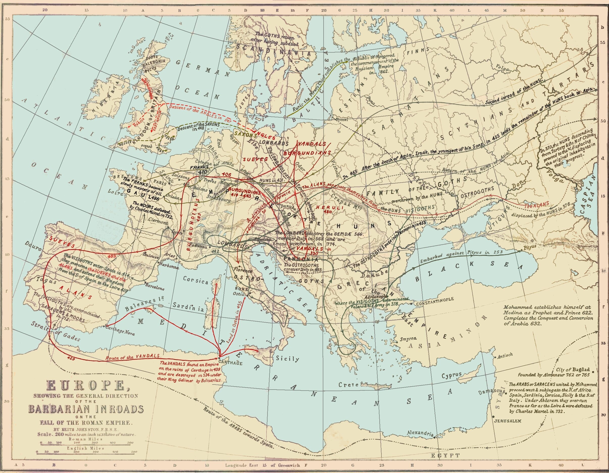 Routes of Barbarian Invasions. (As this work is more than 100 years old, its factual accuracy has partly been superceded by later historical research.)